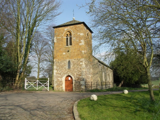 St Luke's parish church, Newton Harcourt, Leicestershire, seen from the west